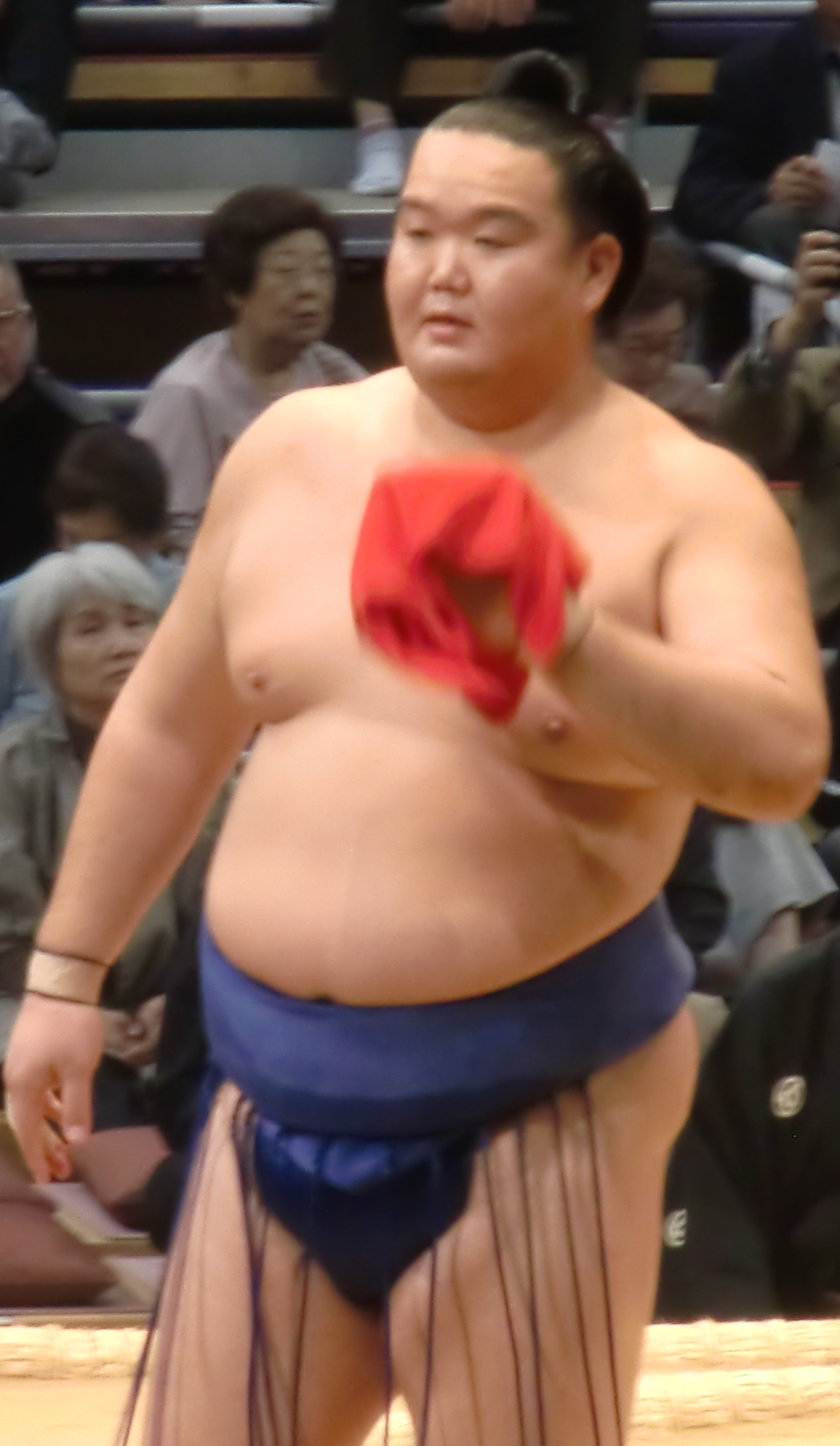 taken at 2011 November tournament